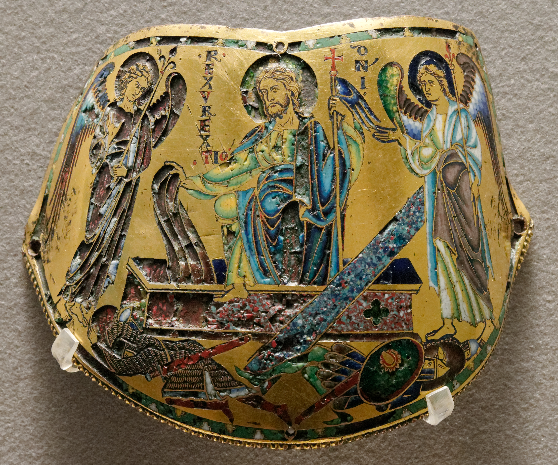 Armlet, ceremonial bracelet, worn on the upper part of the arm.